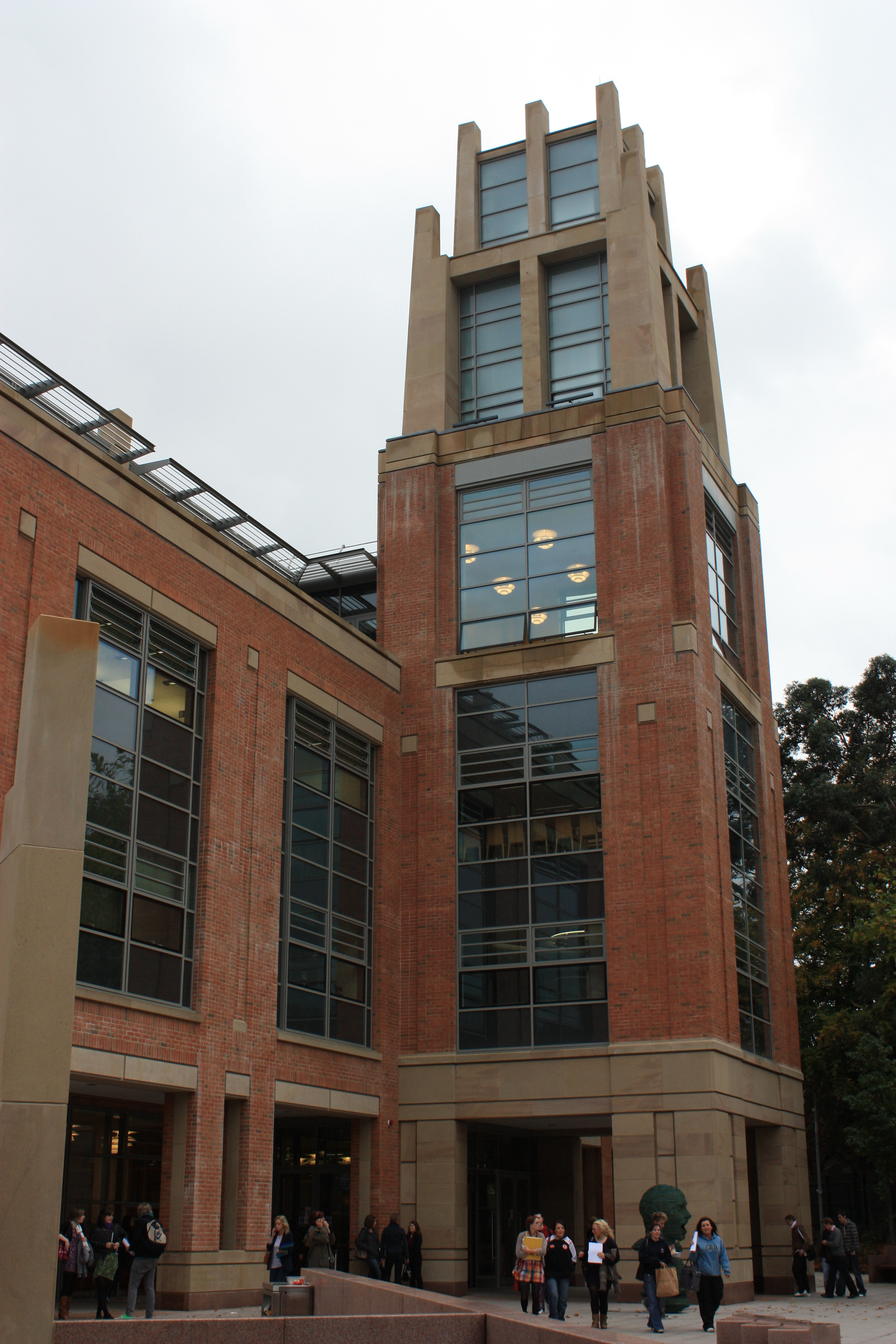 The Library at Queen's, Queen's University Belfast, College Park, Belfast, Northern Ireland, October 2009